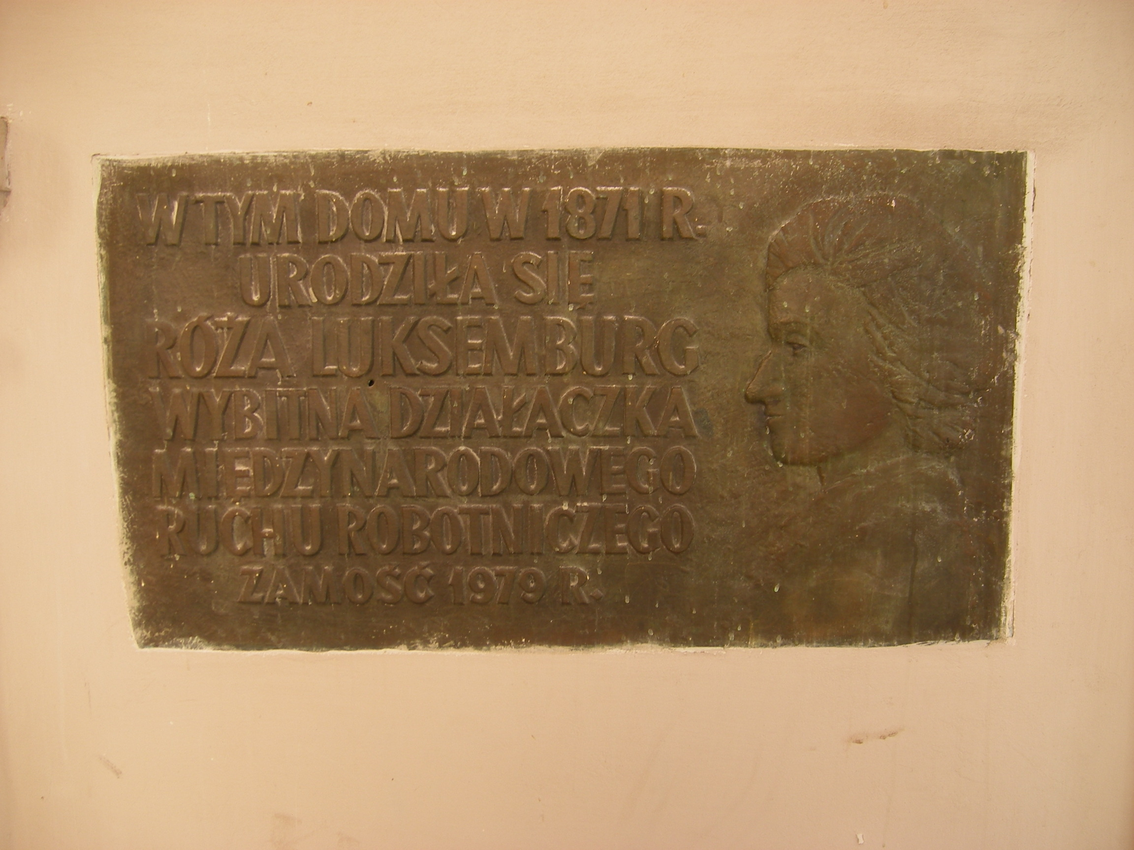 Zamość, Rosa Luxemburg childhood home, 37 Staszic Street.